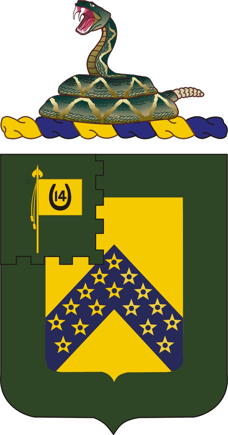 From the US Army TIOH